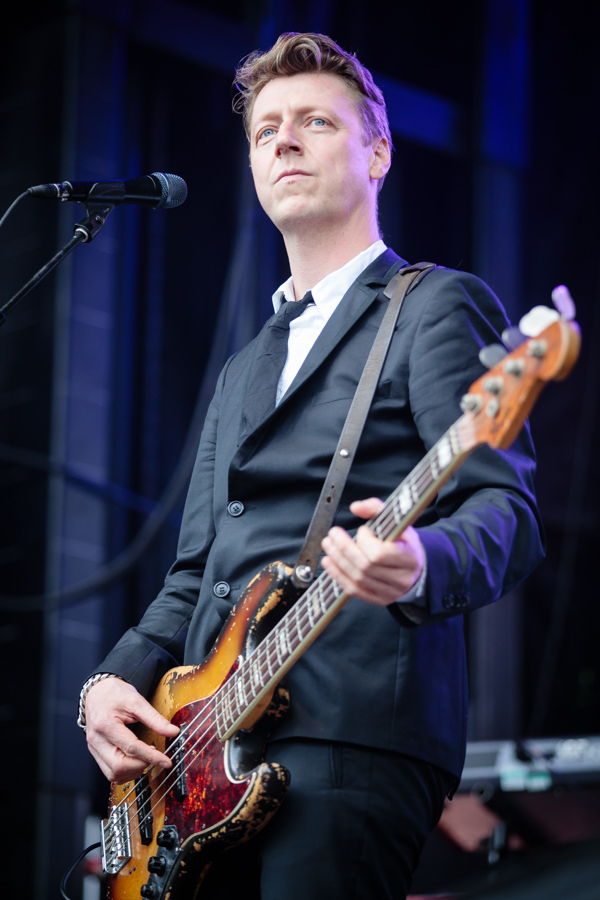 Dougie Payne in a concert with Travis at the Vigeland stage in the Vigeland Park. The concert was part of Piknik i Parken and took place on 17. June 2018 in Oslo. Lineup:Fran Healy (vocal and rhytm guitar)Dougie Payne (bass guitar)Andy Dunlop (guitar)Neil Primrose (drums)Unidentified (keyboard)